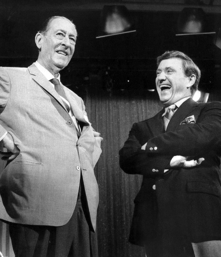 Photo of Arthur Treacher and Merv Griffin from Griffin's late-night television program The Merv Griffin Show.